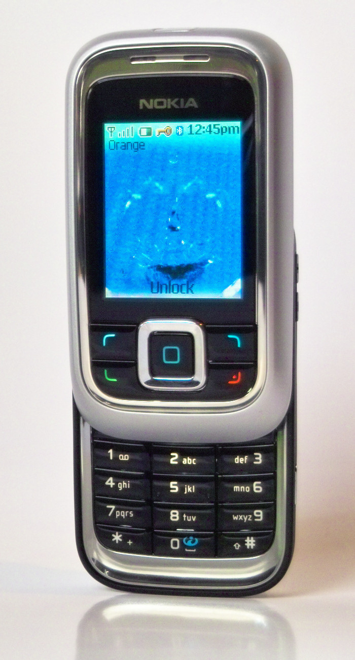 Nokia 6111, photographed by ed g2s • talk.